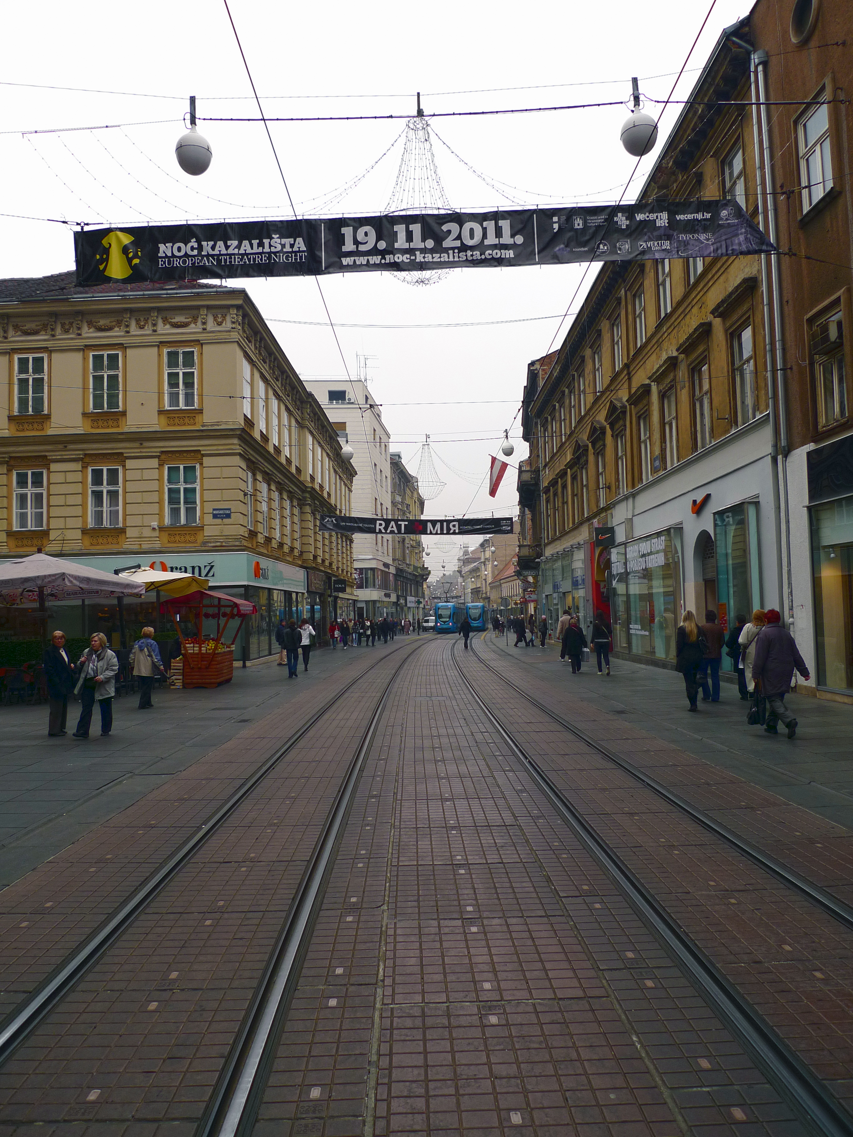 Ilica about No. 7 to the left, and No. 10 to the right, Zagreb.